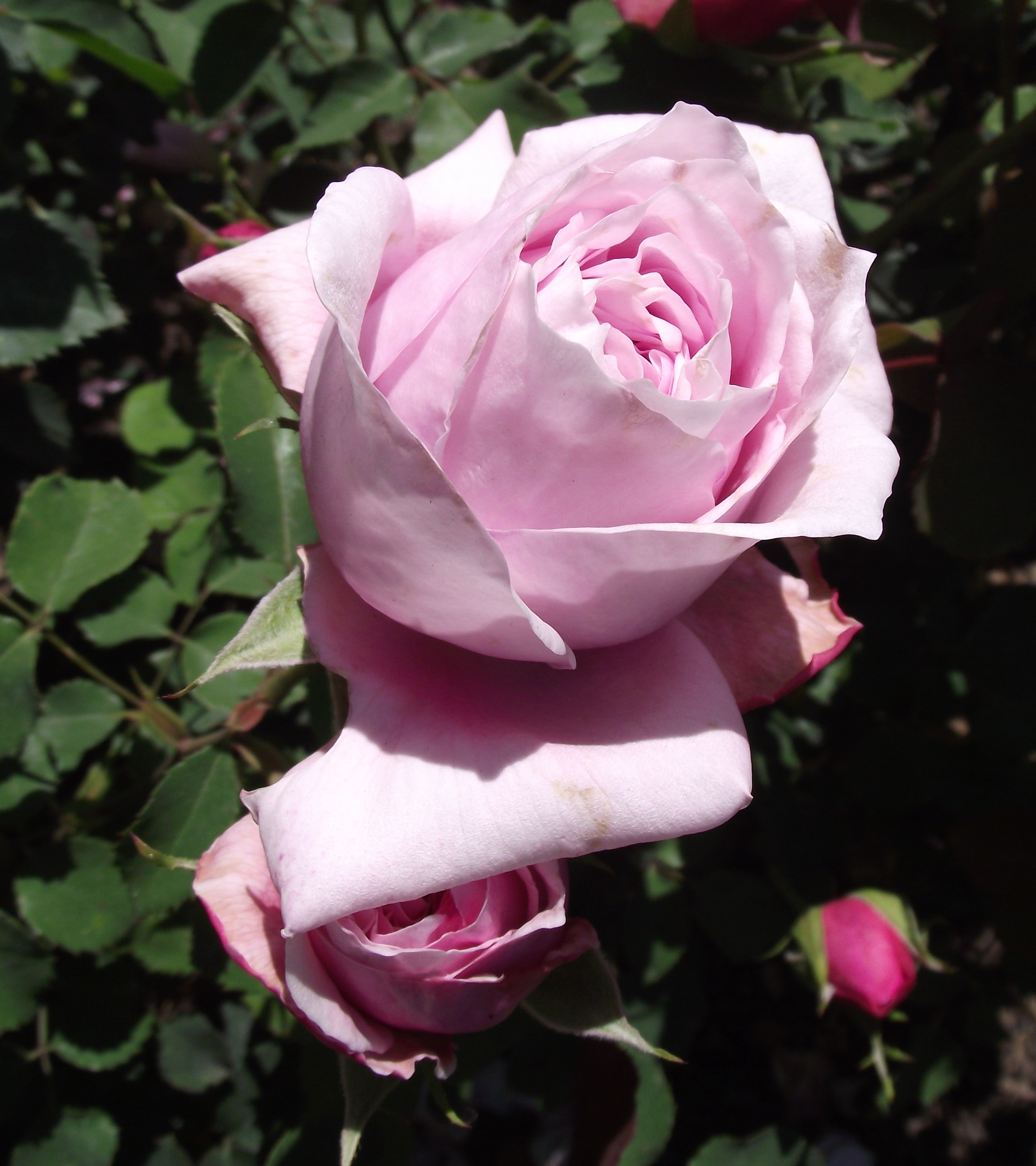 Rosa 'Pretty Jessica' at the Los Angeles County Arboretum, Arcadia, California, USA. Identified by sign.